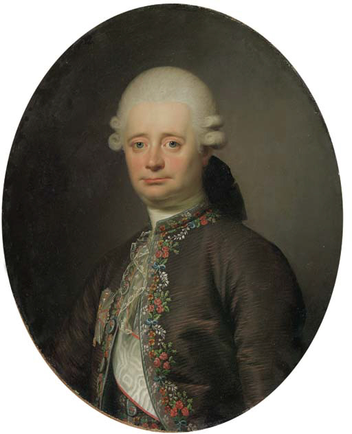 Portrait of Baron Otto Blome (1735-1803), bust-length, in a brown jacket embroidered with flowers, with the badge of the Order of the Dannebrog